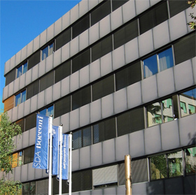 SDA Bocconi School of Management (Building)